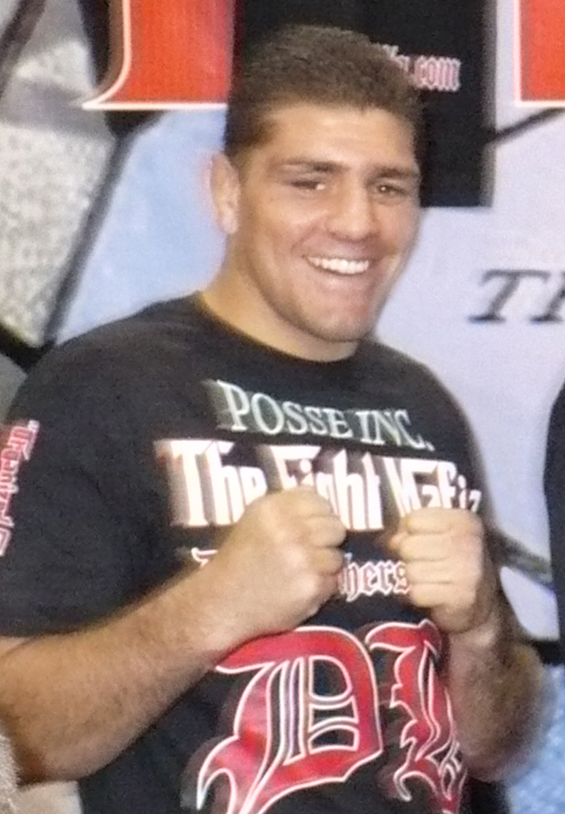 Nick Diaz at the first UFC Fan Expo in Las Vegas, NV